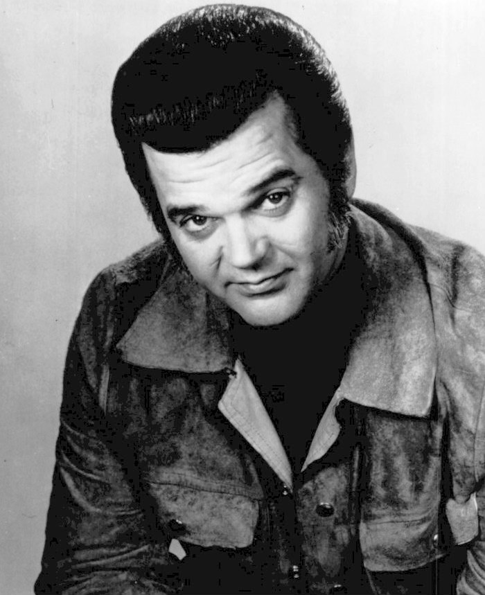 Photo of Conway Twitty.